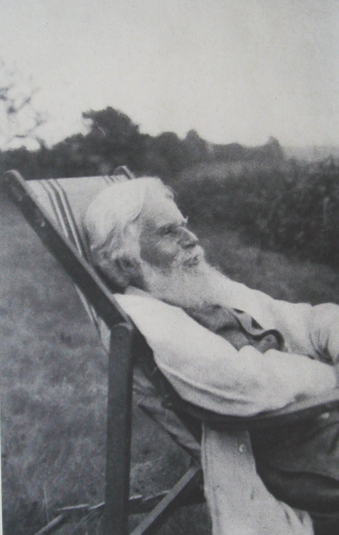 Havelock Ellis.